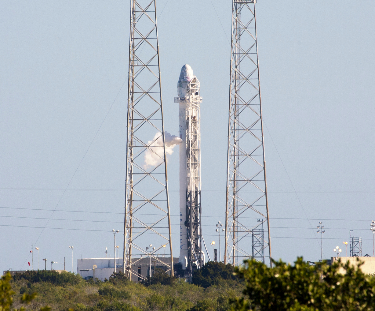 CAPE CANAVERAL, Fla. – The Space Exploration Technologies Corp. SpaceX Falcon 9 rocket with Dragon capsule attached on top sits fully fueled on Space Launch Complex-40 at Cape Canaveral Air Force Station in Florida during a launch dress rehearsal for the company’s next demonstration test flight for NASA’s Commercial Orbital Transportation Services-2 COTS-2) program. SpaceX is one of two companies under contract with NASA to take cargo to the International Space Station. NASA is working with SpaceX to combine its last two demonstration flights, and if approved, the Falcon 9 would launch the Dragon capsule to the orbiting laboratory for a docking within the next several months.